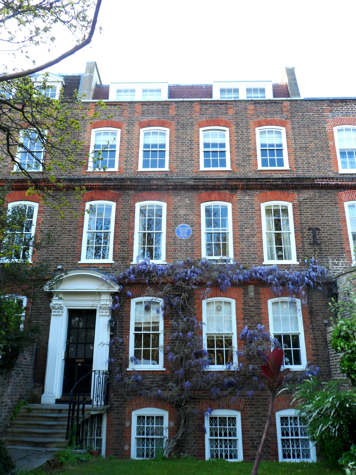 GRAHAM GREENE 1904-1991 Writer lived here 1935-1940